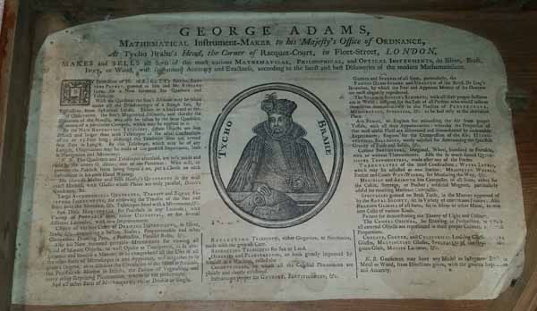 This is the oldest known trade card for George Adams, Sr., Instrument Maker. It is in the collection at The Mariners' Museum, Newport News, VA.